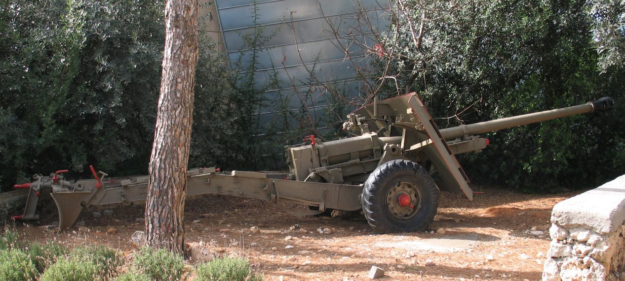 Description: British Ordnance QF 17 pounder anti-tank cannon Beyt ha-Totchan, Zichron Yaakov, Israel. 2005. Source: Photo by me, User:Bukvoed.